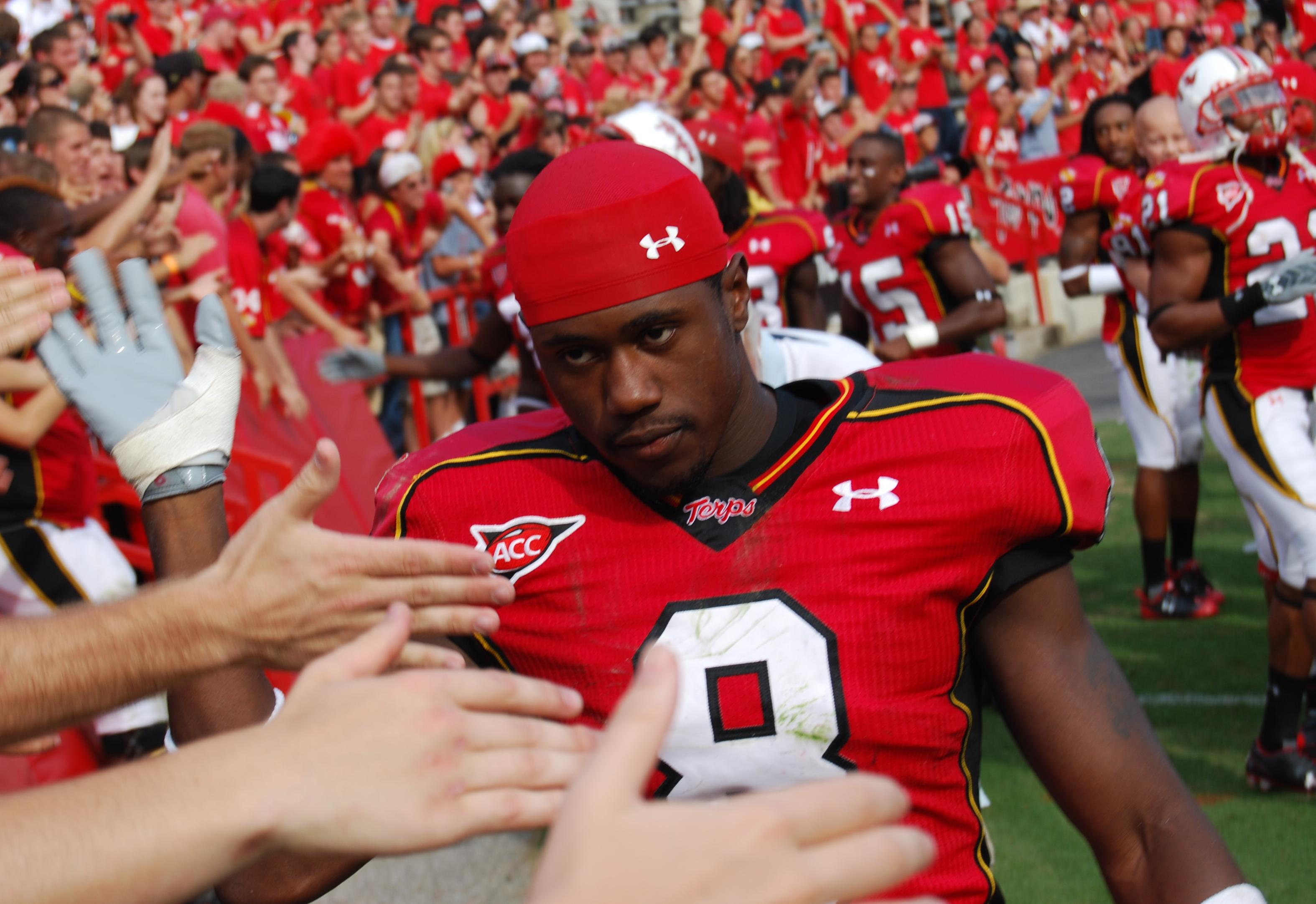 Wide receiver Darrius Heyward-Bey greets fans before the 2008 Maryland-Eastern Michigan football game.